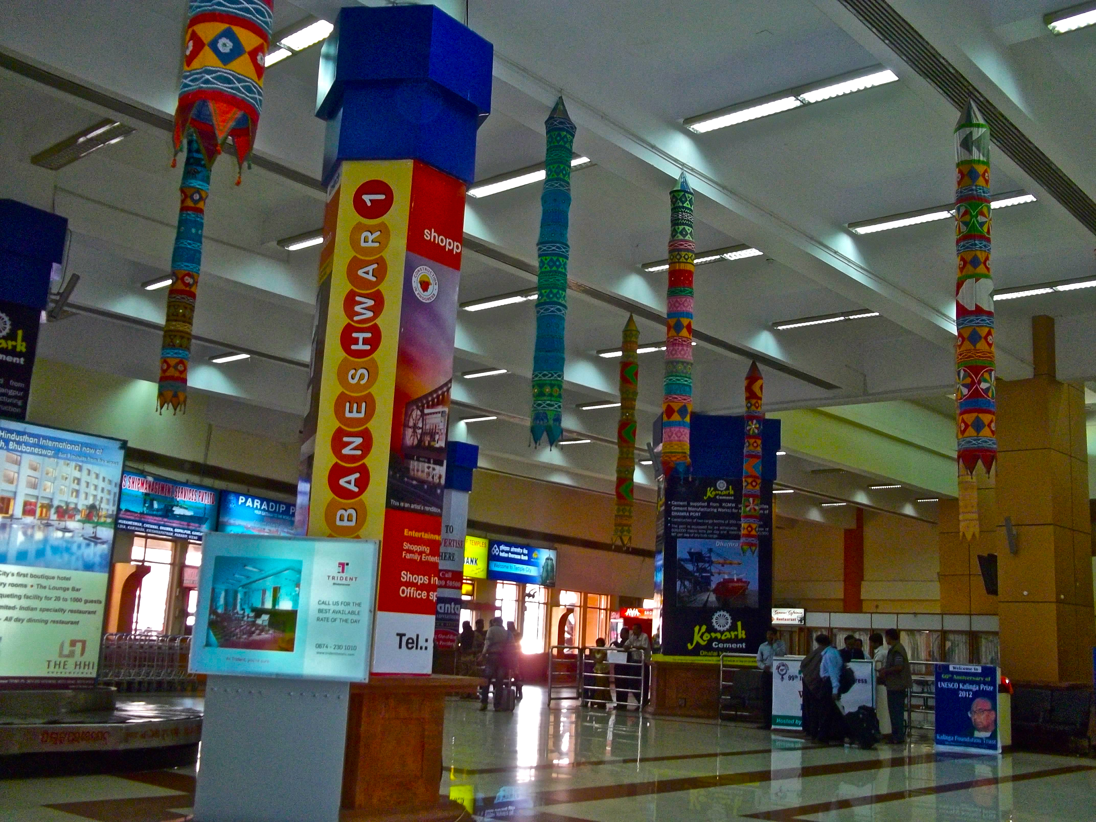 Biju Patnaik Airport (BBI), Bhubaneswar, Odisha This media file is uploaded with Odia loves Wikipedia